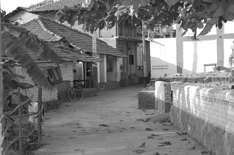 Picture taken by self.